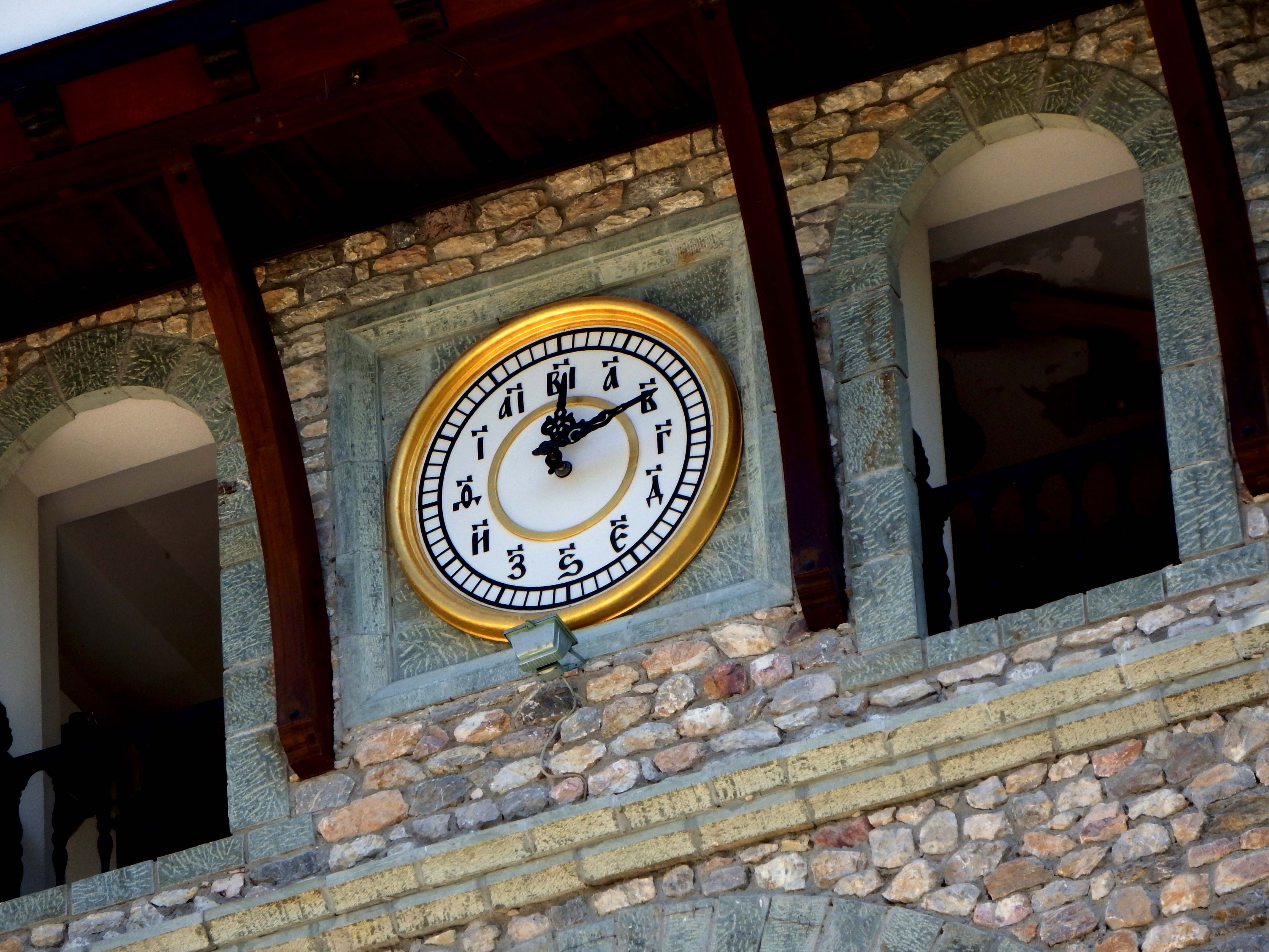 Detail- the clock on the Clock Tower at the monastery St.John the Baptist Ова е фотографија на споменик на културата во Македонија со типски код: Ова е фотографија на споменик на културата во Македонија со типски код: A01This is a a photo of a cultural monument in North Macedonia with type id: A01 This is a a photo of a cultural monument in North Macedonia with type id: Ова е фотографија на споменик на културата во Македонија со типски код: A01This is a a photo of a cultural monument in North Macedonia with type id: A01